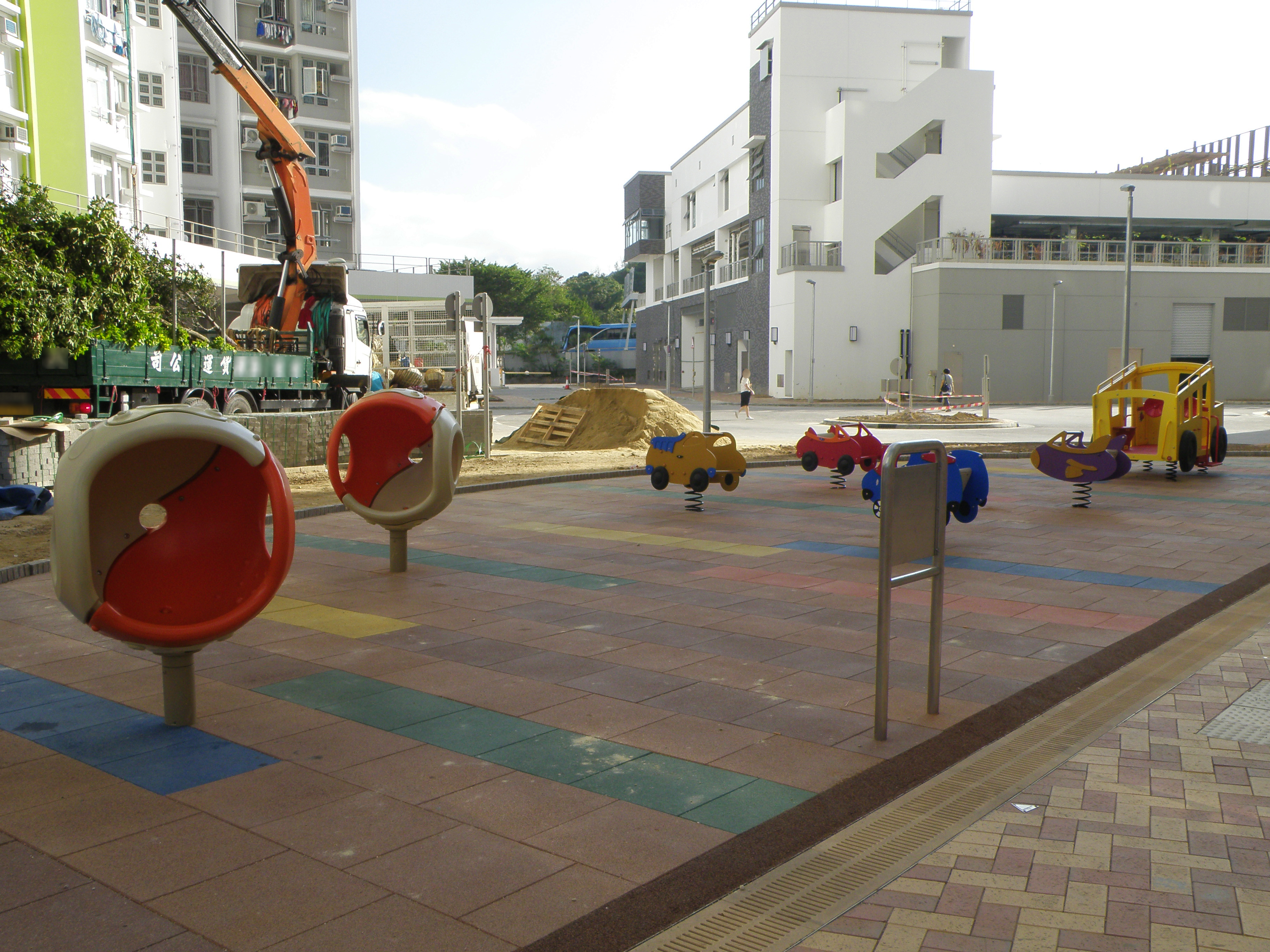 Hung Fuk Estate in Hung Shui Kiu, Hong Kong.